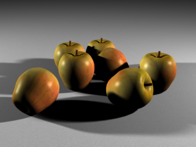 Apples made with 3ds max